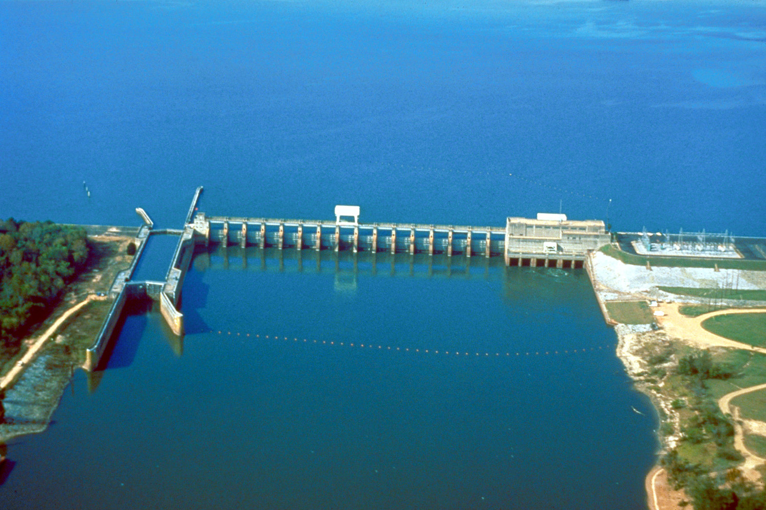 Aerial view of Jim Woodruff Lock and Dam, impounding Lake Seminole on the Chattahoochee River and Flint River confluence. The Apalachicola River flows out of the dam. The dam spans the Florida–Georgia border, and also the border between Jackson and Gadsden Counties in Florida. The dam is located near Chattahoochee, Florida. *This earth dam is over a mile long, and this photograph shows only the central concrete and steel lock and water control structure of the dam.